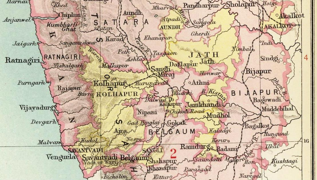 1909 Imperial Gazetteer of India Bombay Presidency II map section